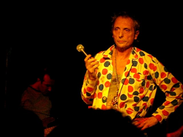 Bruno Wizard of "The Homosexuals" performs at AS220